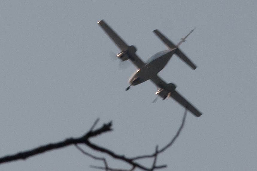 Not my best shot (of course I forgot that I had my shutter set at 160 to blur props on a WC-130 earlier, argh!) However, this is N66NC with a windmilling engine, you can see prop blur on the left one but the right one is completely out. Scary stuff. Pilot had priority and landed fine on 32. Safety was en route as of posting.